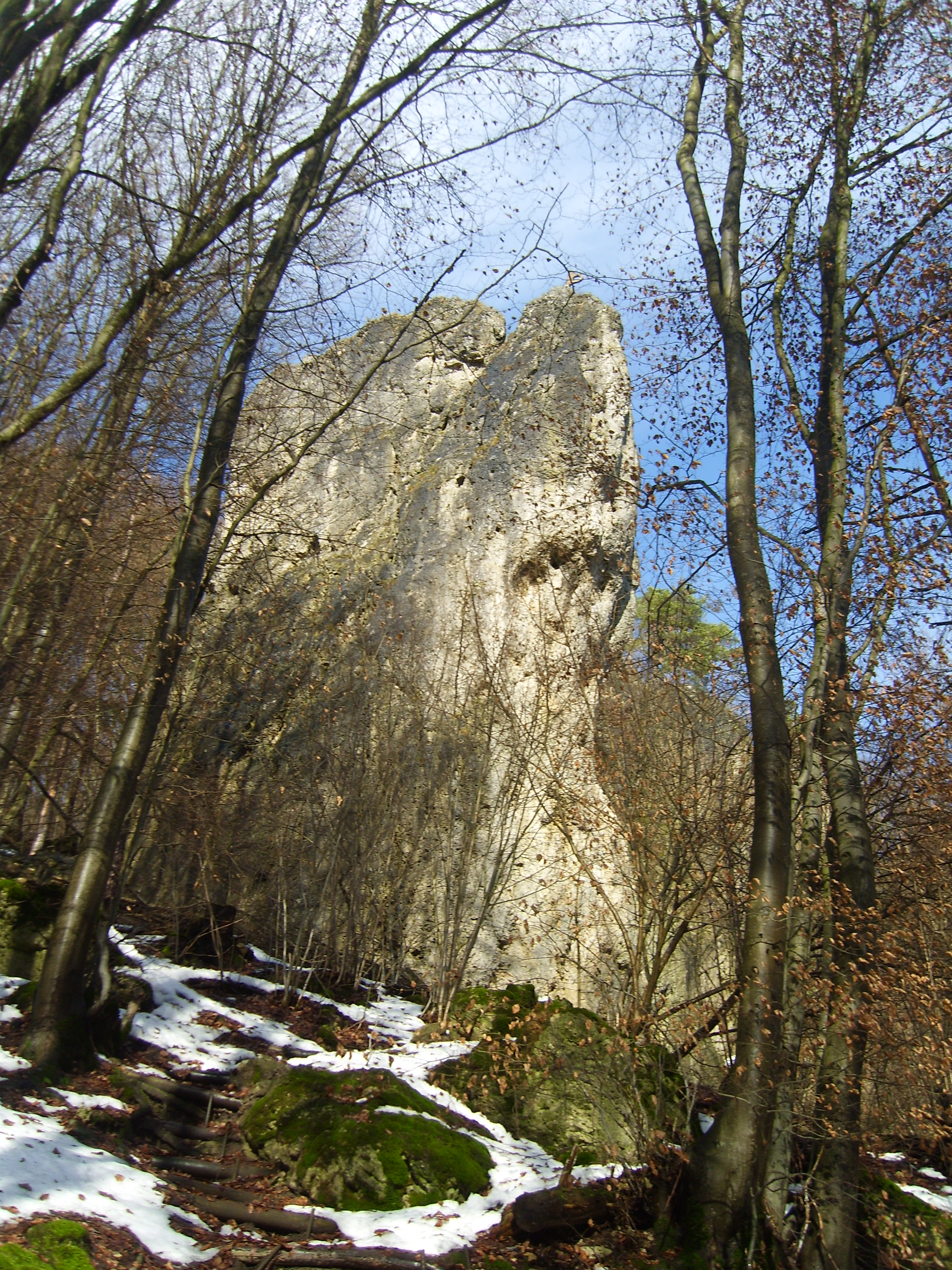 Rock "Zehnerstein" near by Obertrubach